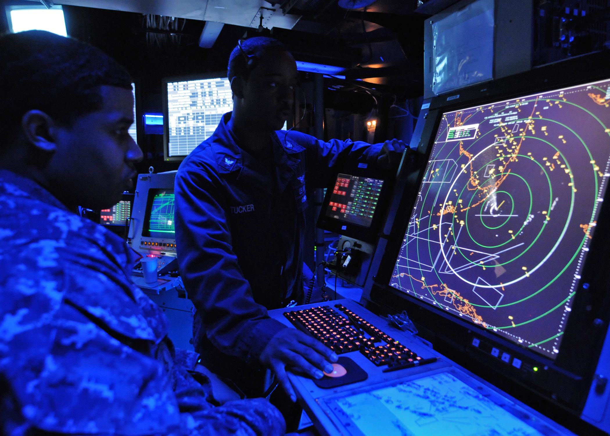 ATLANTIC OCEAN (Feb. 8, 2012) Air-Traffic Controller 2nd Class Gregory Clemmons stands the departure position watch as Air-Traffic Controller 3rd Class Marcus T. Tucker sets up on-screen maps in the carrier air traffic control center aboard the aircraft carrier USS George H.W. Bush (CVN 77). George H.W. Bush is in the Atlantic Ocean conducting carrier qualifications. (U.S. Navy photo by Mass Communication Specialist 3rd Class Kasey Krall/Released)